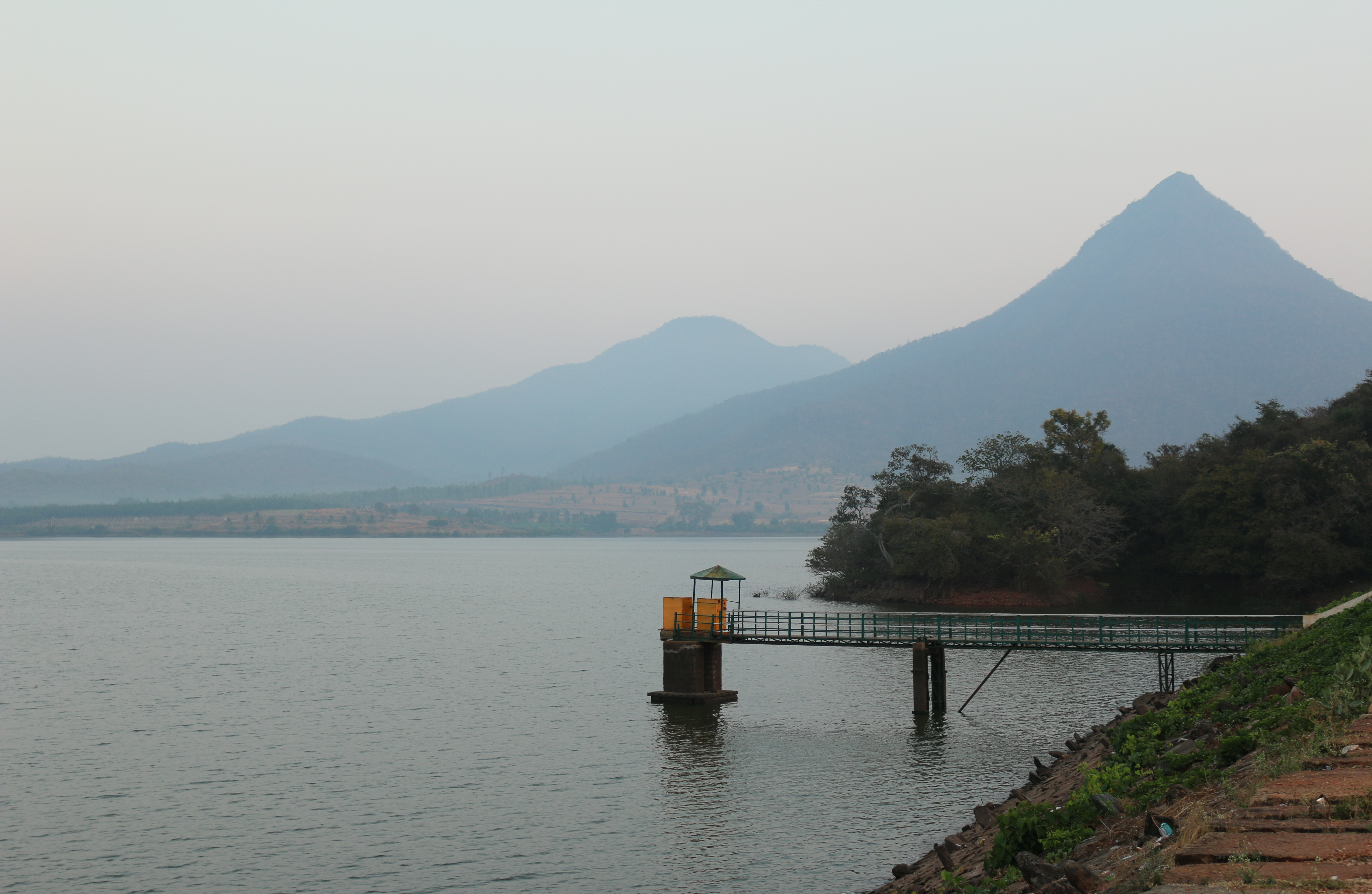 Ayyanakere Lake is located at a distance of 20 km from the town of Chikmagalur. It is the second biggest lake in Karnataka.